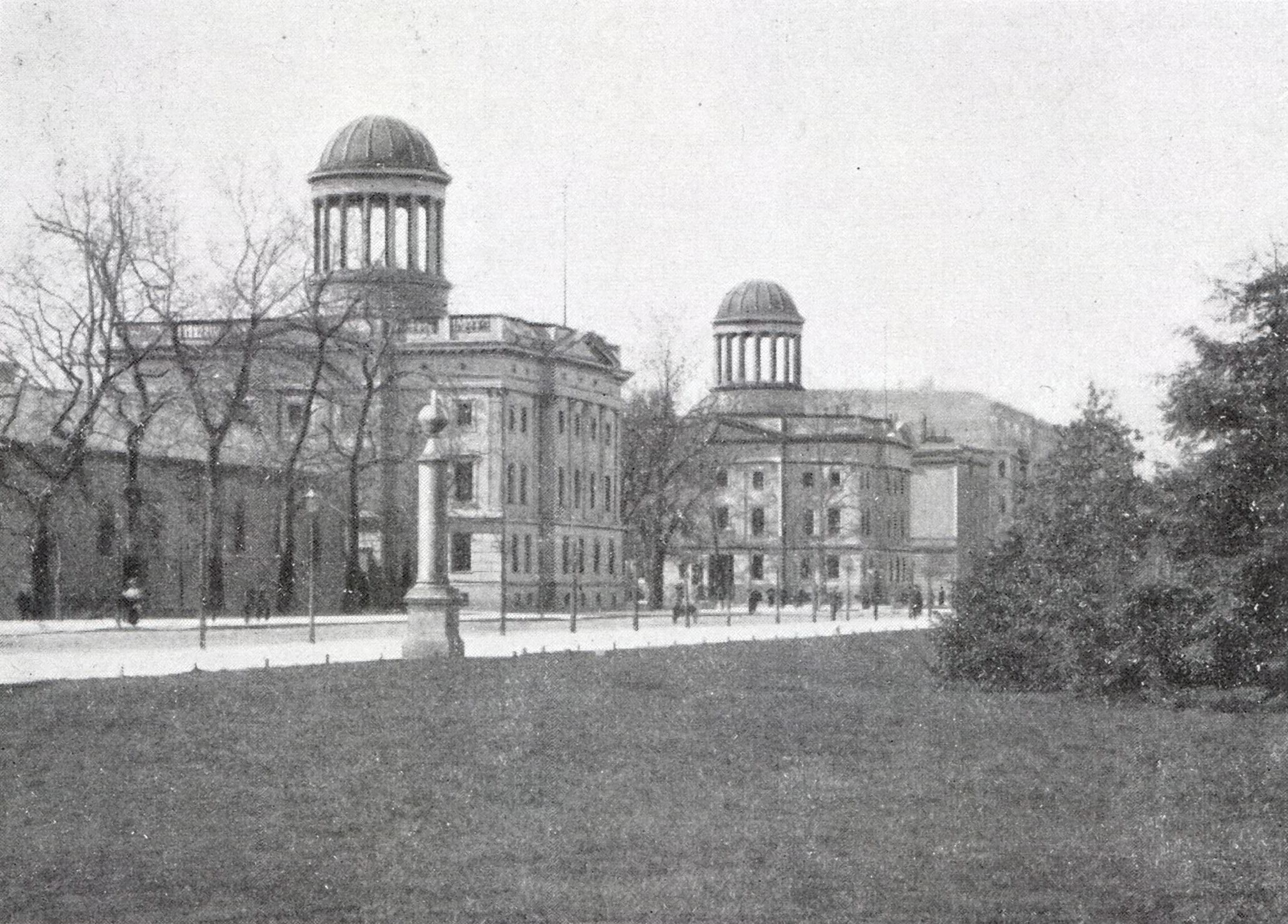 View from Luisenplatz, Berlin-Charlottenburg, to the milestone and the Stüler buildings.